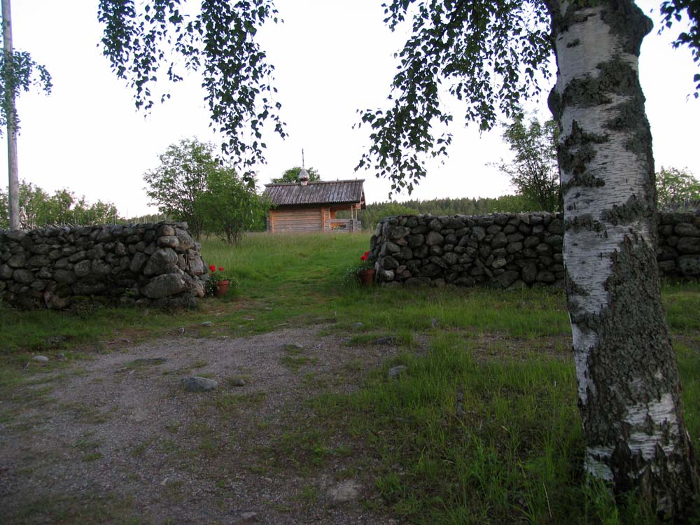 Vuokonjarvi orthodox tsasouna wooden church Juuka